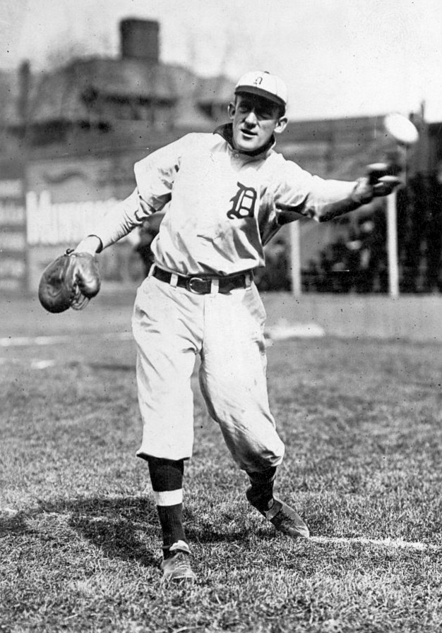 Photo of Detroit baseball player Ed Killian.